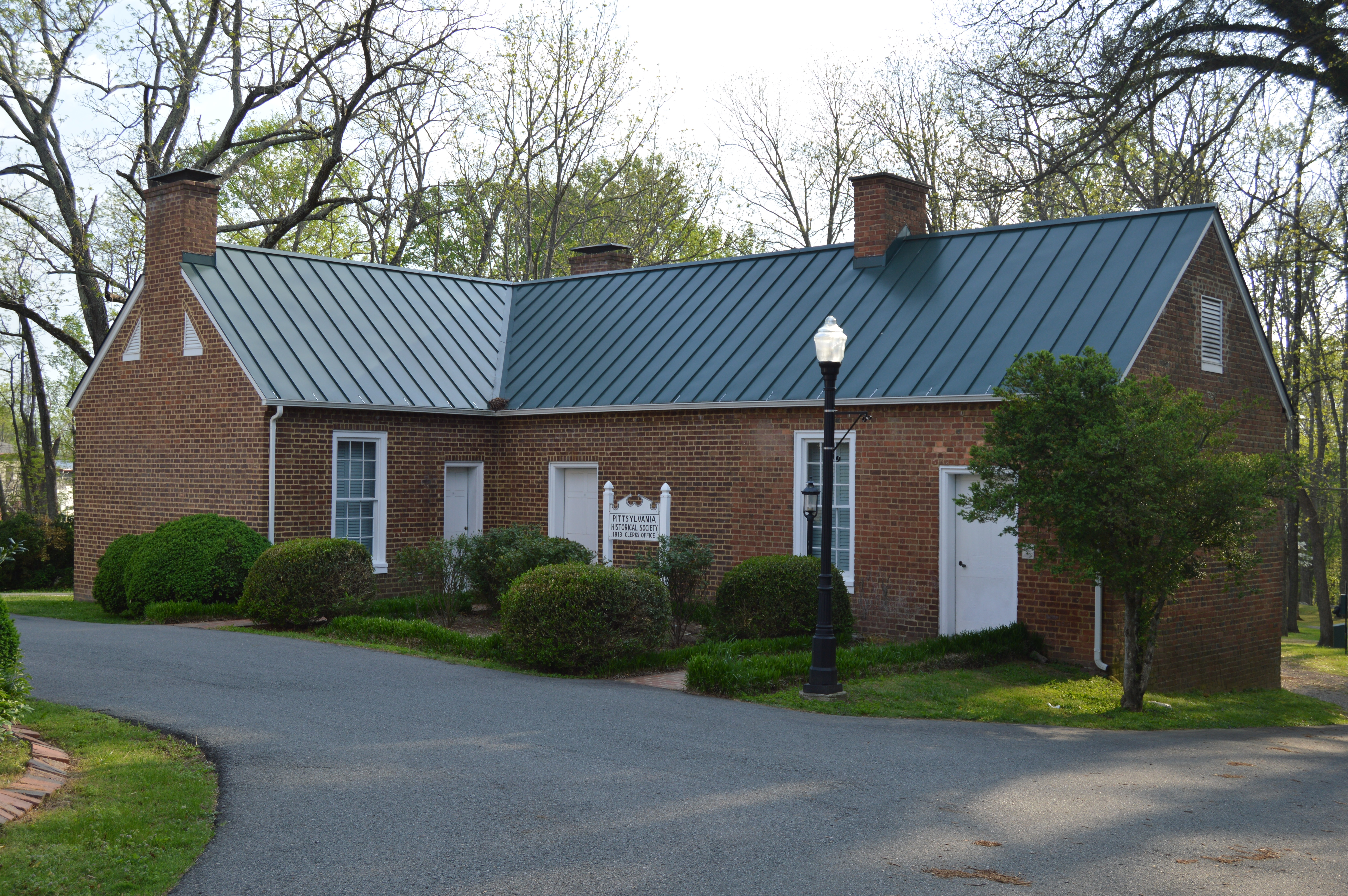 Front of the Pittsylvania County Clerk's Office, located behind the town hall on Whittle Street in Chatham, Virginia, United States. Built in 1812, it is listed on the National Register of Historic Places.